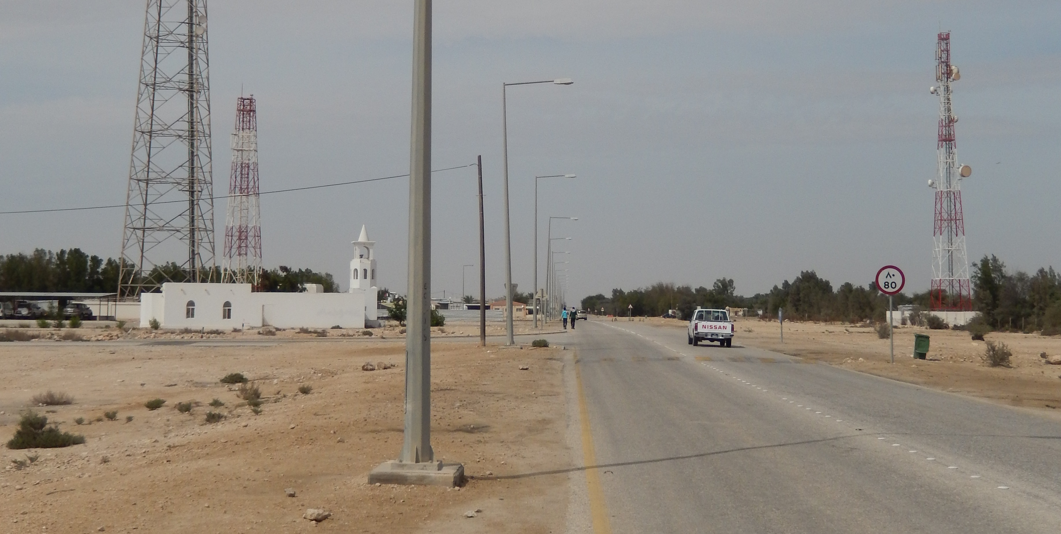 Main street through Al Utouriya, a village 42 km to the northwest of Doha (in the municipality of Al Rayyan, Qatar). (There are many different ways of spelling Al Utouriya; one also encounters Al `Aţūrīyah, Al Athārīyah, A-uriyah (on Google Maps) or Al Otouriyah.)